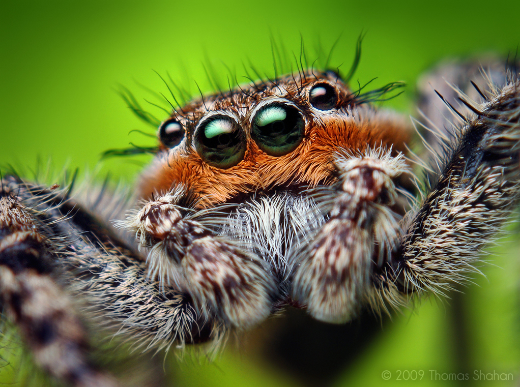 A male Platycryptus undatus. Although this species can be quite common, they are sometimes difficult to spot on the bark of trees due to their markings. The shot above is a crop from a photo taken with my vintage 1960s Pentax Asahi Takumar 50mm f/1.4 prime reversed on extension tubes.